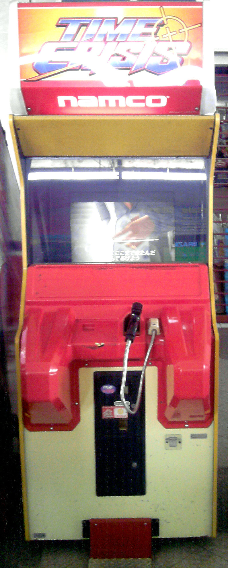 Photo of Time Crisis. A namco system 22 game. Photo taken at Plaza palmeras, Escuintla (Guatemala, Central America)